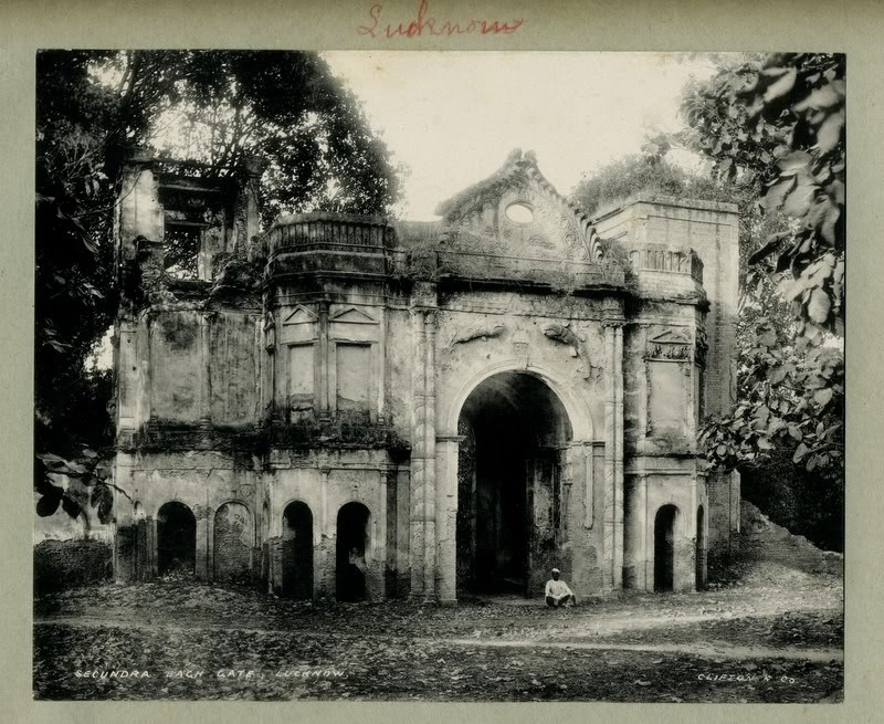 The Secundra Bagh Gate, Lucknow